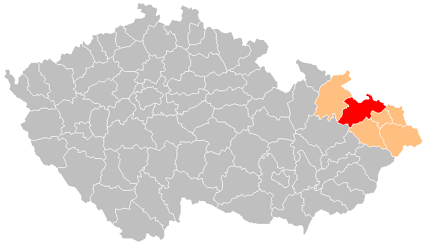 District of Opava